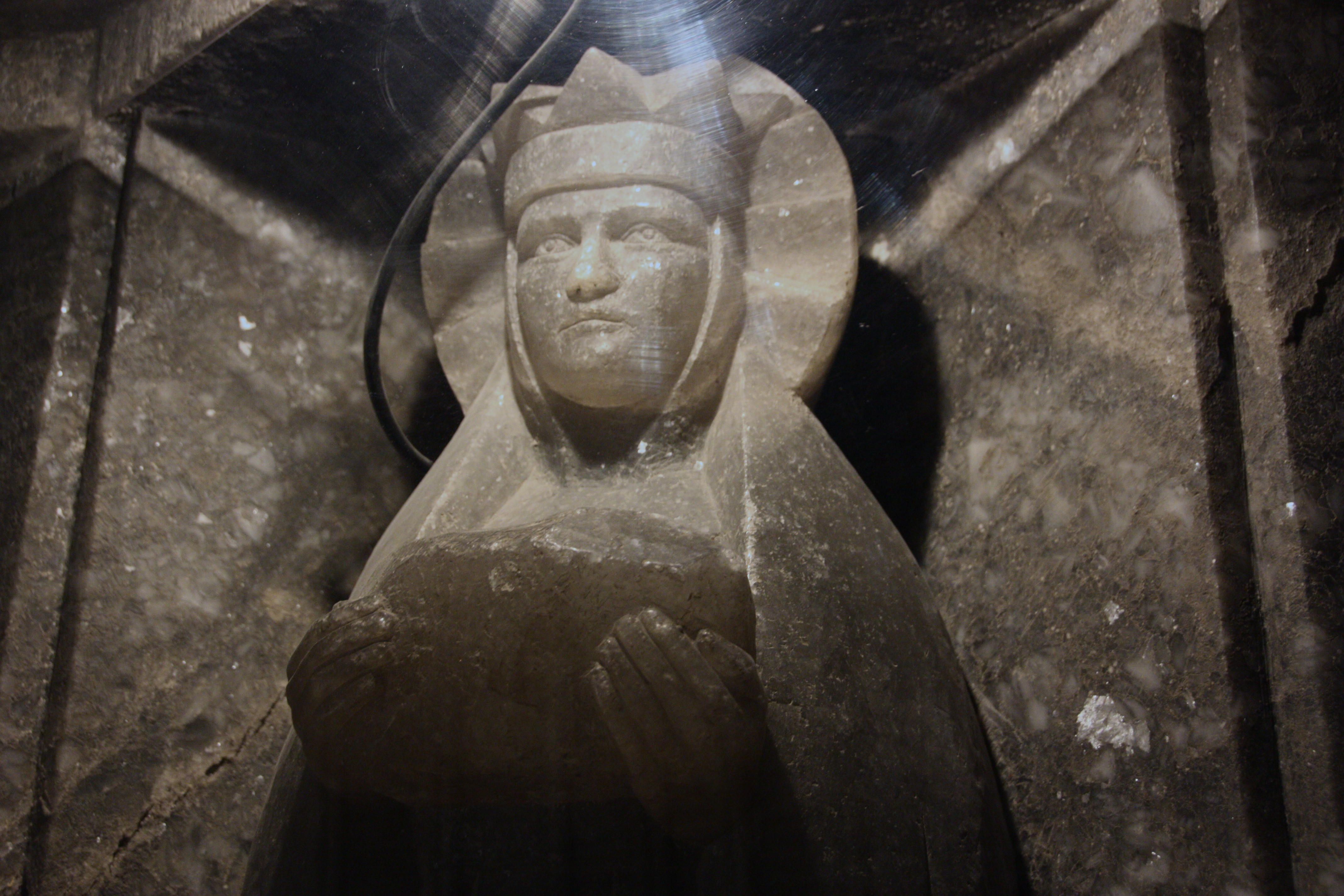 The statue of Saint Kinga, patron saint of the salt miners, carved on salt in the cathedral of Saint Kinga of Poland, in the salt mine of Wieliczka in Poland, 101 meters under the surface... St. Kinga's Chapel